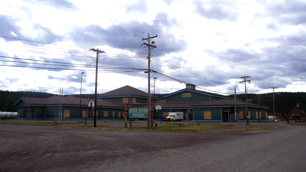 Ross River school